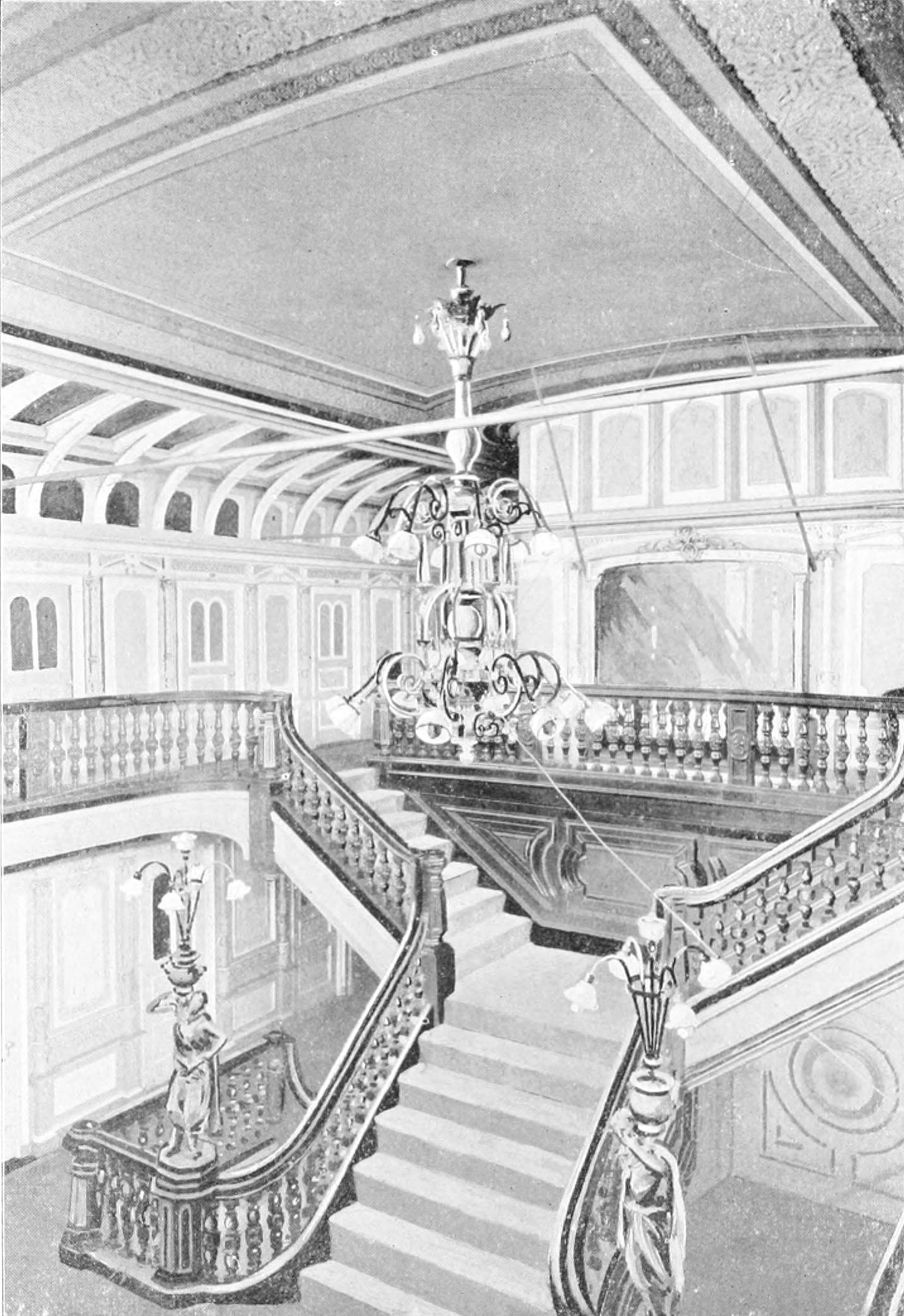 Interior photo of the Fall River Line's steamboat Providence, showing the main stairway and bulkhead, grand saloon aft.